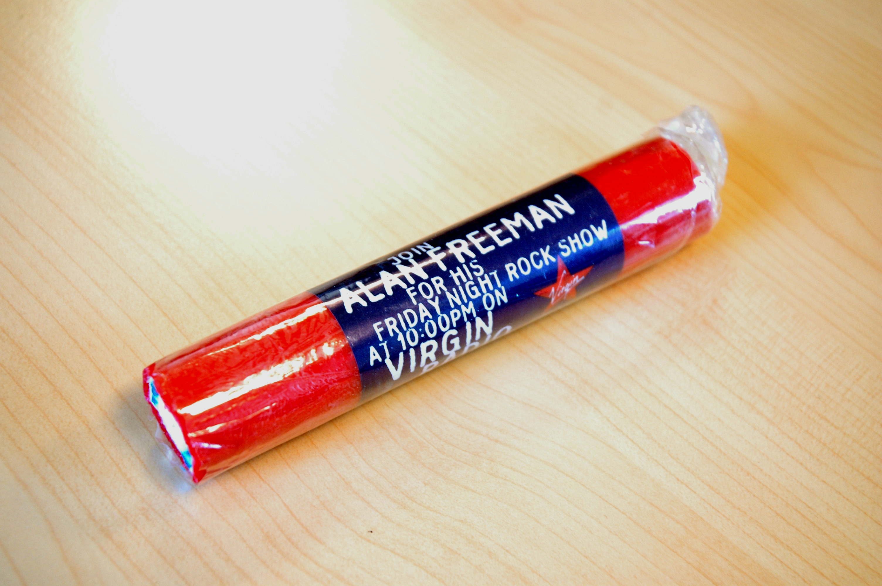 A stick of rock, sent out to promote Alan 'Fluff' Freeman's Friday Night Rock Show on Virgin Radio in the 1990s.